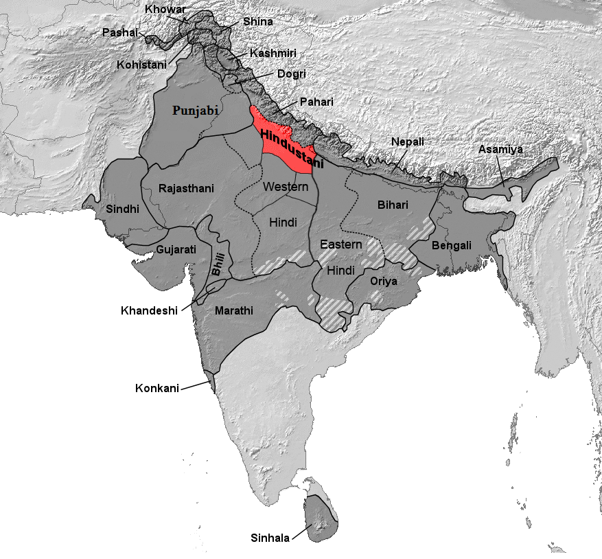 Areas (red) where Hindustani (Khariboli/Kauravi dialect) is the native language